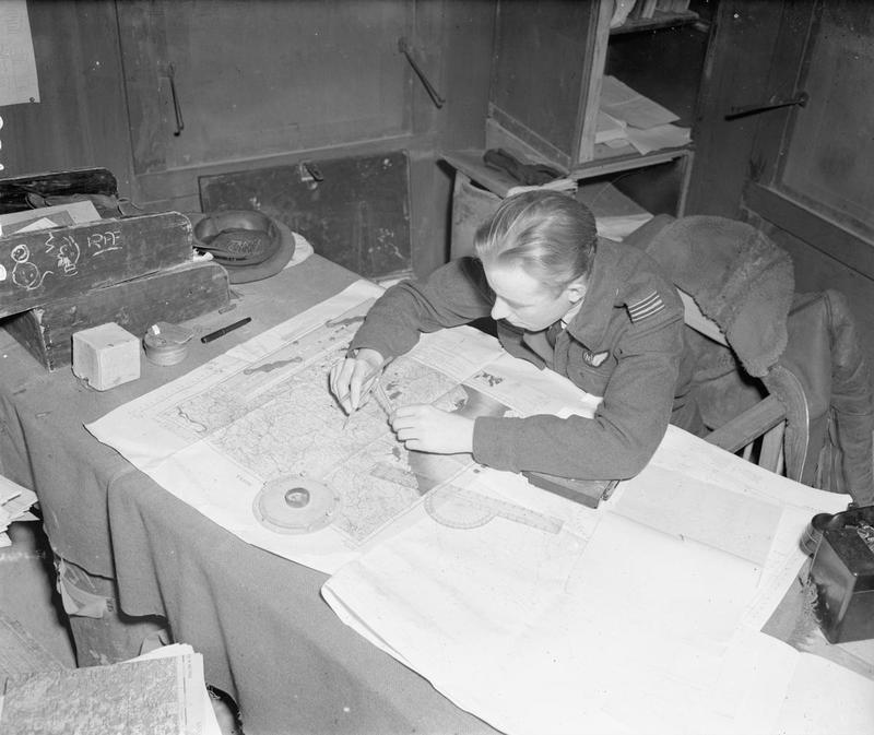 IWM caption : Flight Lieutenant R Gate, a navigator of No. 40 Squadron RAF, marks his course on a chart at Foggia Main, Italy, before taking off for a bombing raid on the railway yards at Sarajevo, Yugoslavia.